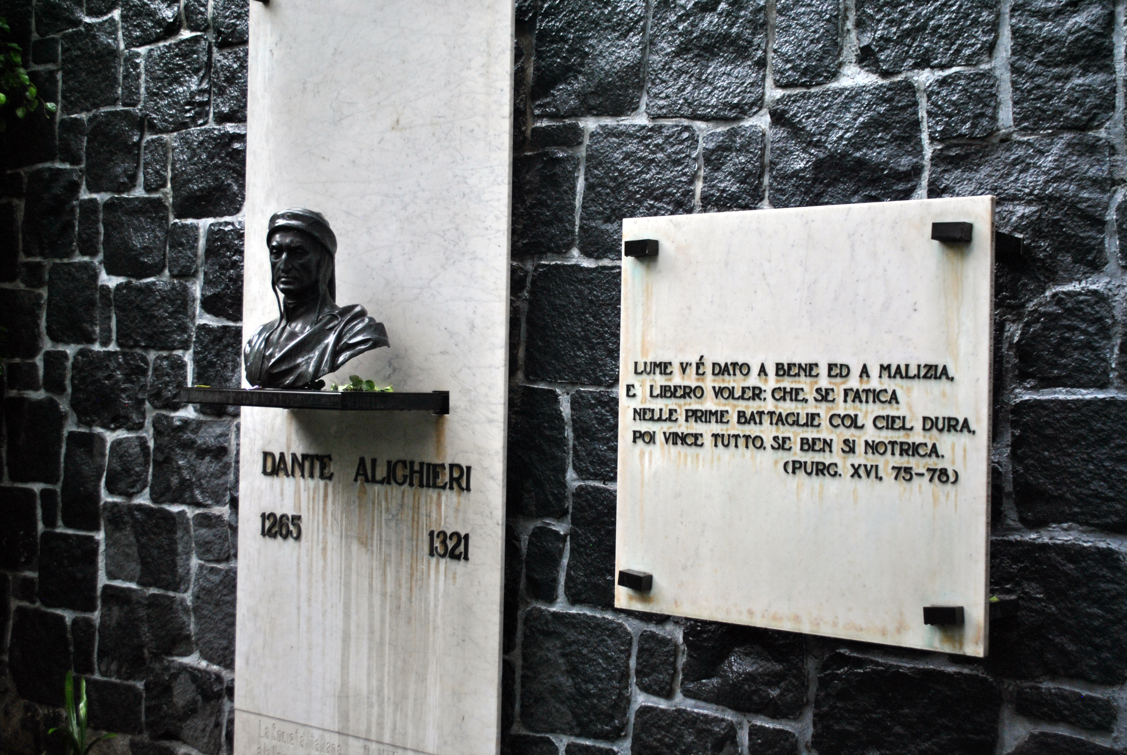 Bust of Dante Alighieri. Faculty of Philosophy and Literature of UNAM.